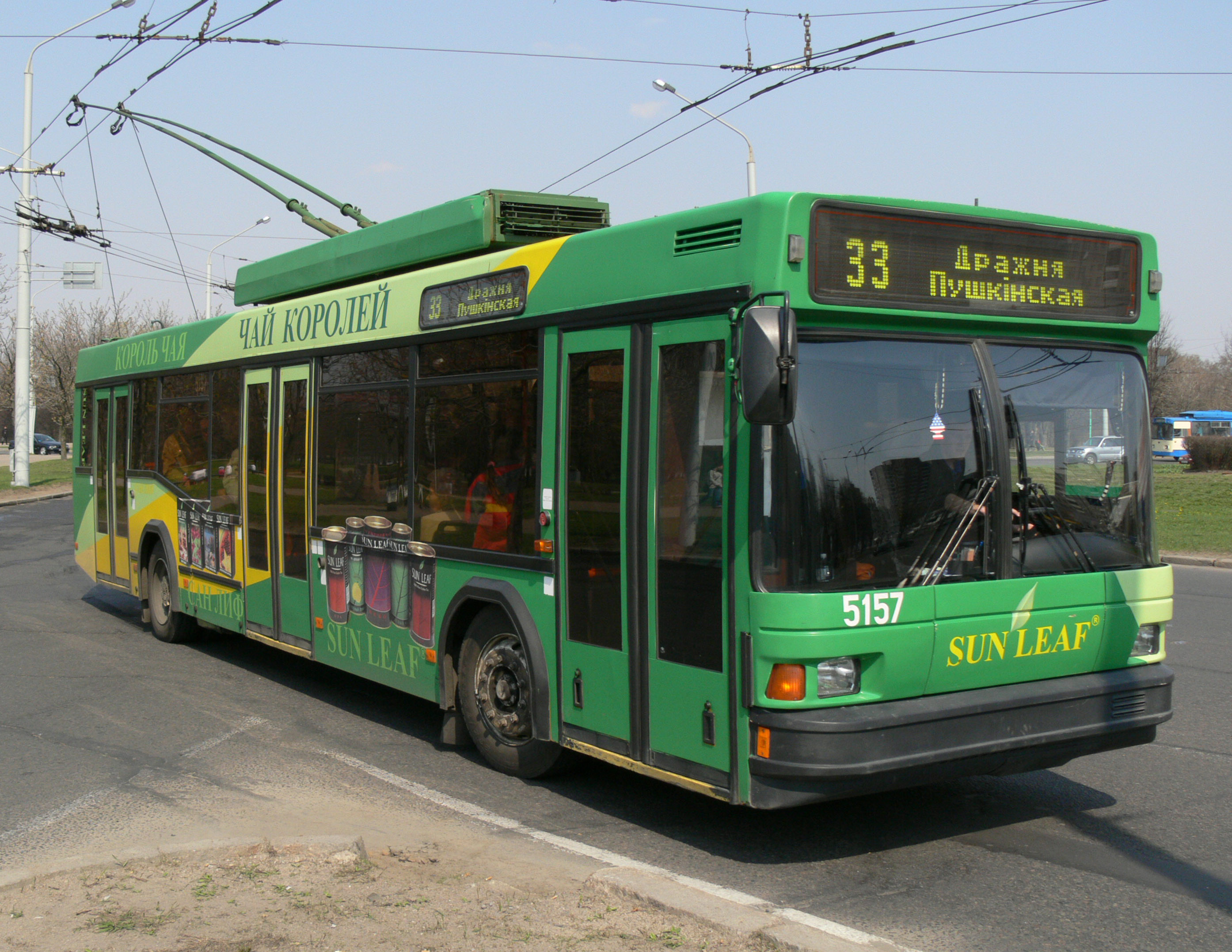 Belarusian trolleybus AKSM-221 in Minsk